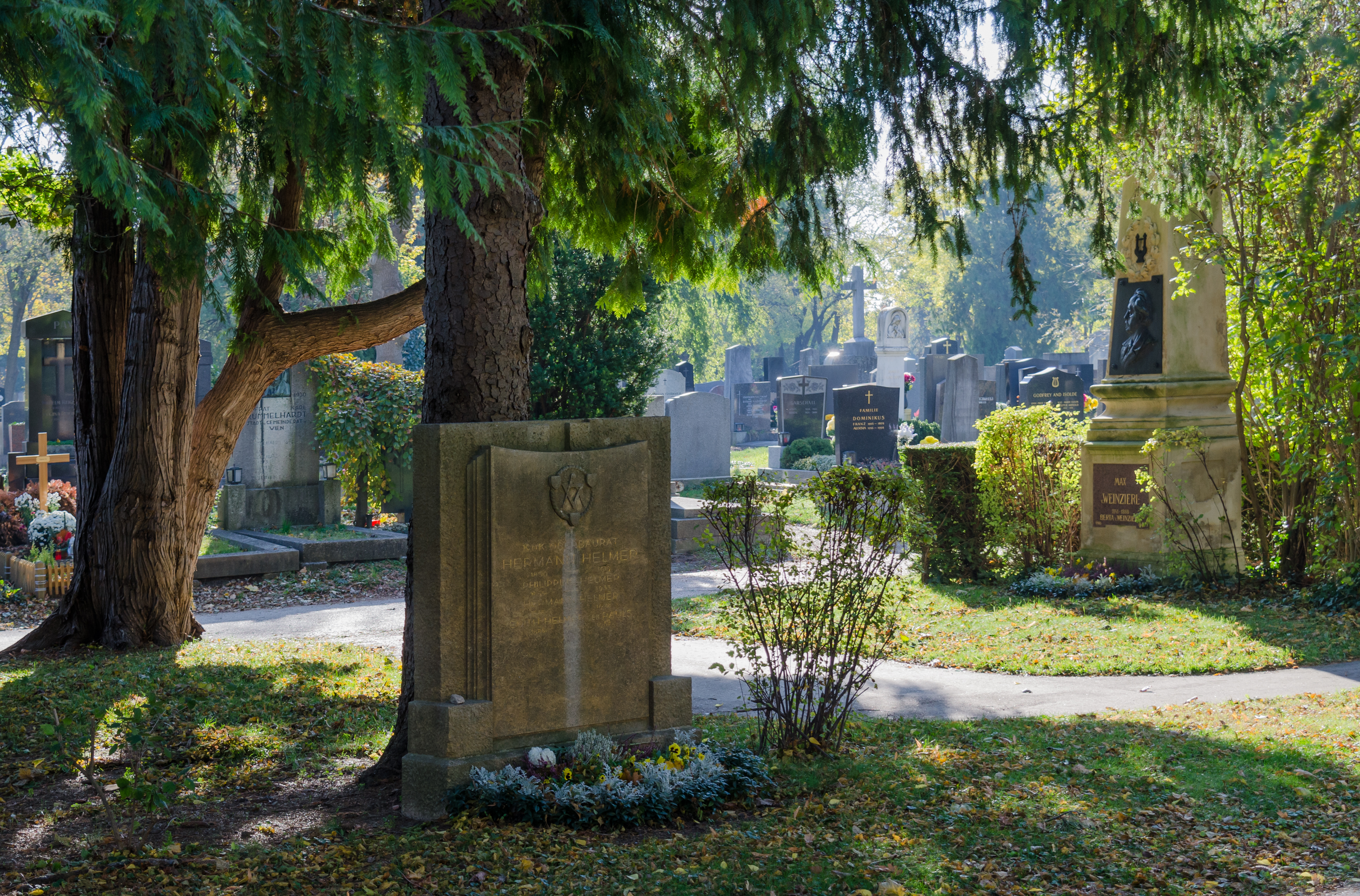 Vienna (Austria) – Central Cemetery – graves of Hermann Helmer (foreground) and Max Weinzierl (background)